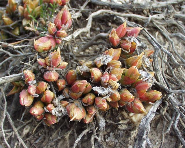 Sceletium tortuosum (en) Sceletium tortuosum, a photography originating of the internet site The accord of the autor, H. Brisse, is here. (fr) Sceletium tortuosum, une photographie issue du site internet L'accord de l'auteur, H. Brisse, se situe ici.